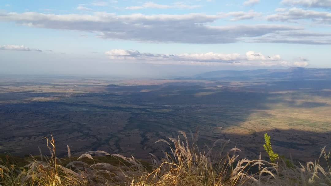 This area is in the great east African rift valley. This picture was taken at the Kawetere on the road to Chunya district.